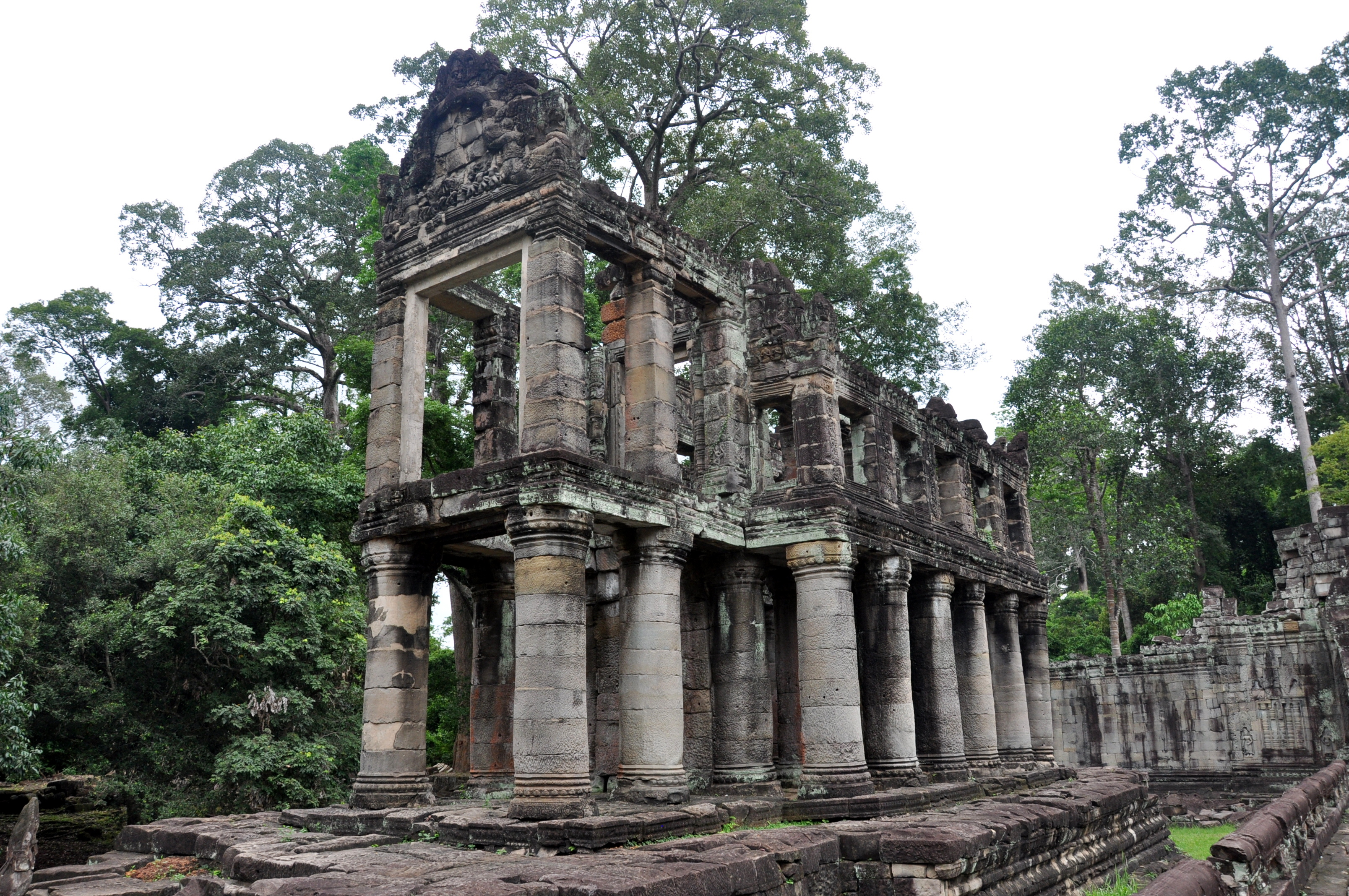 The famous 2 story building in Preah Khan. Ankor, Cambodia. Resembles western classical architecture style.